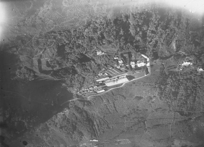 Aerial photograph. Waringin trees along the road to Fort Vredeburg in Jogjakarta.